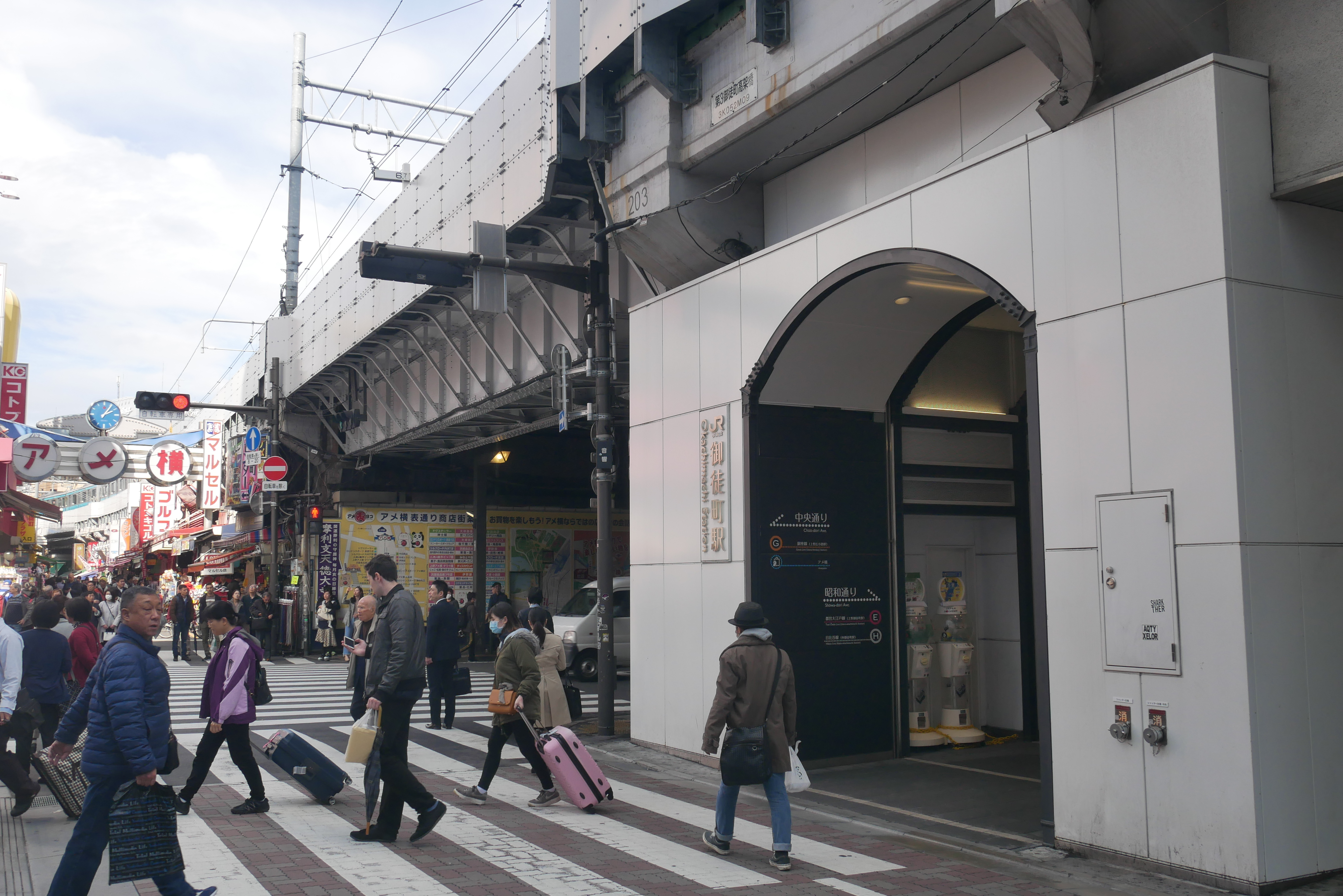 Okachimachi Station north exit